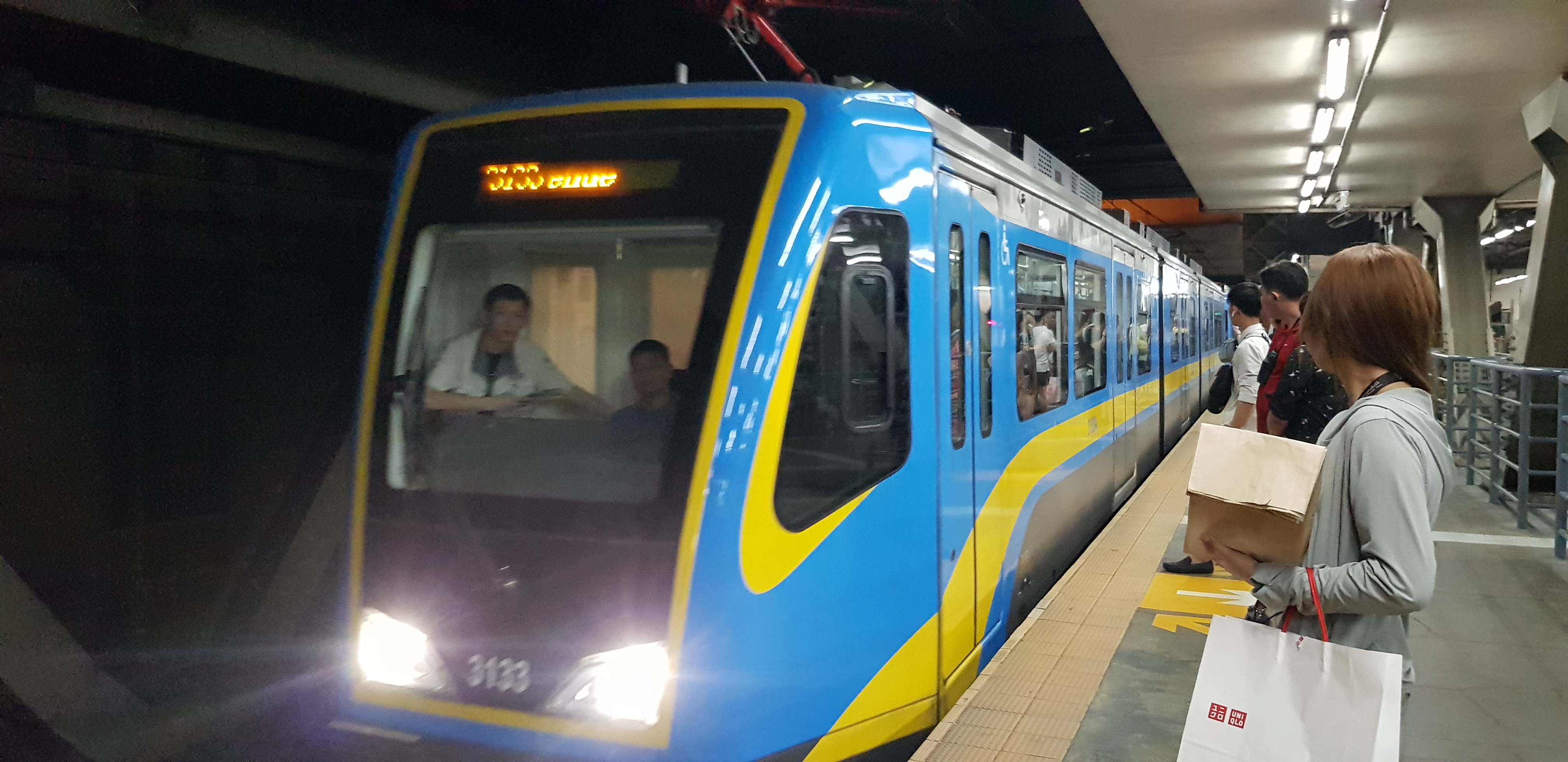 A Manila Line 3 train arriving at Shaw Boulevard station towards Taft Avenue station